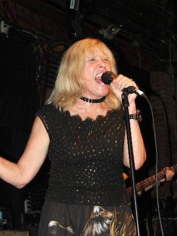 ANTONE's 31st - ANGELA STREHLI